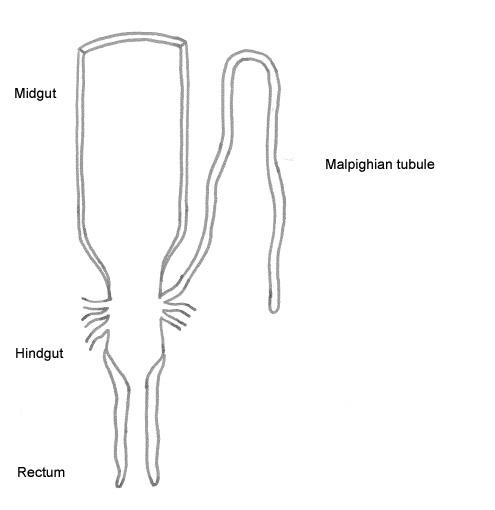 Original diagram - C Turner